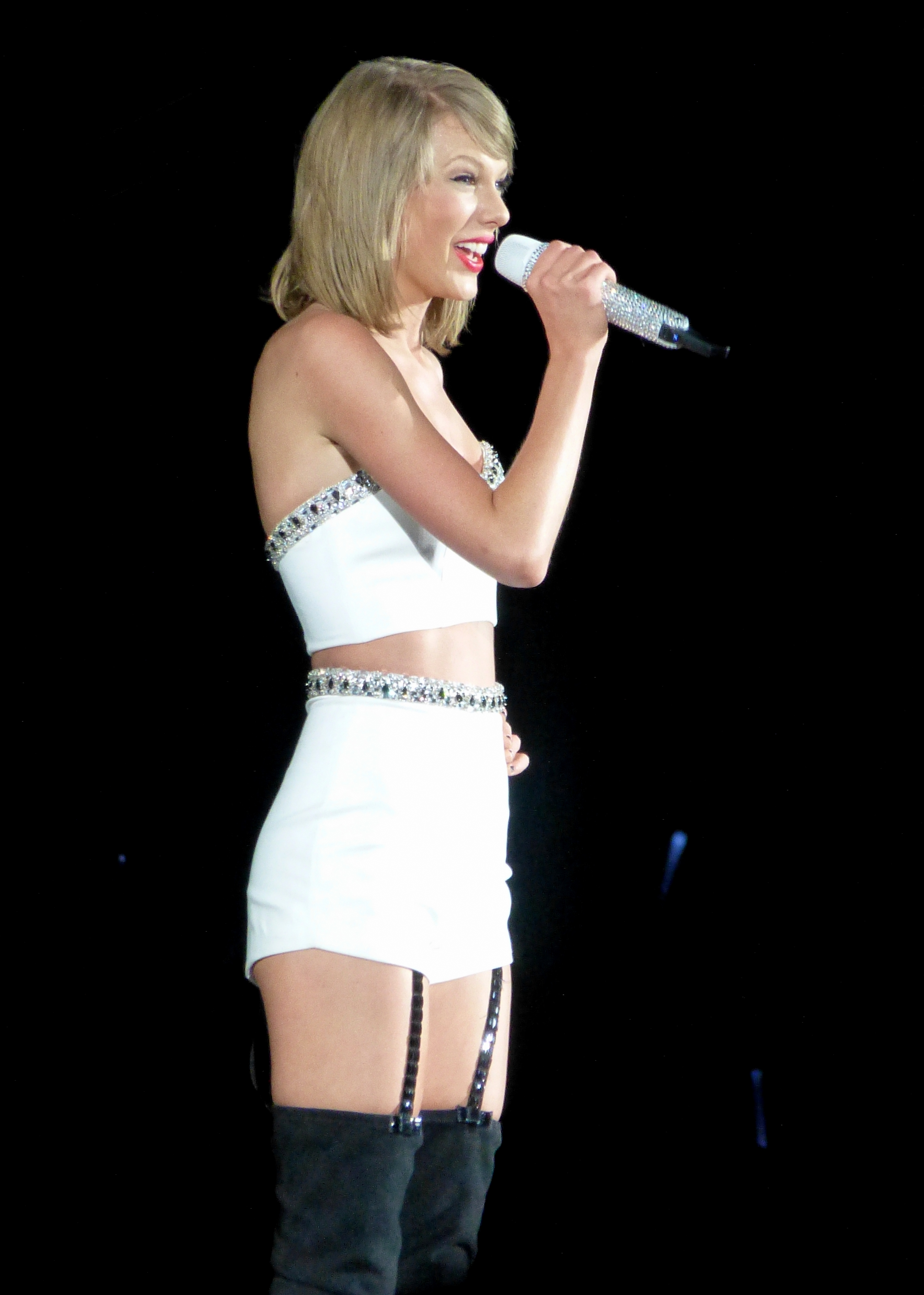 Taylor Swift 1989 Tour at Ford Field in Detroit, 5/30/15